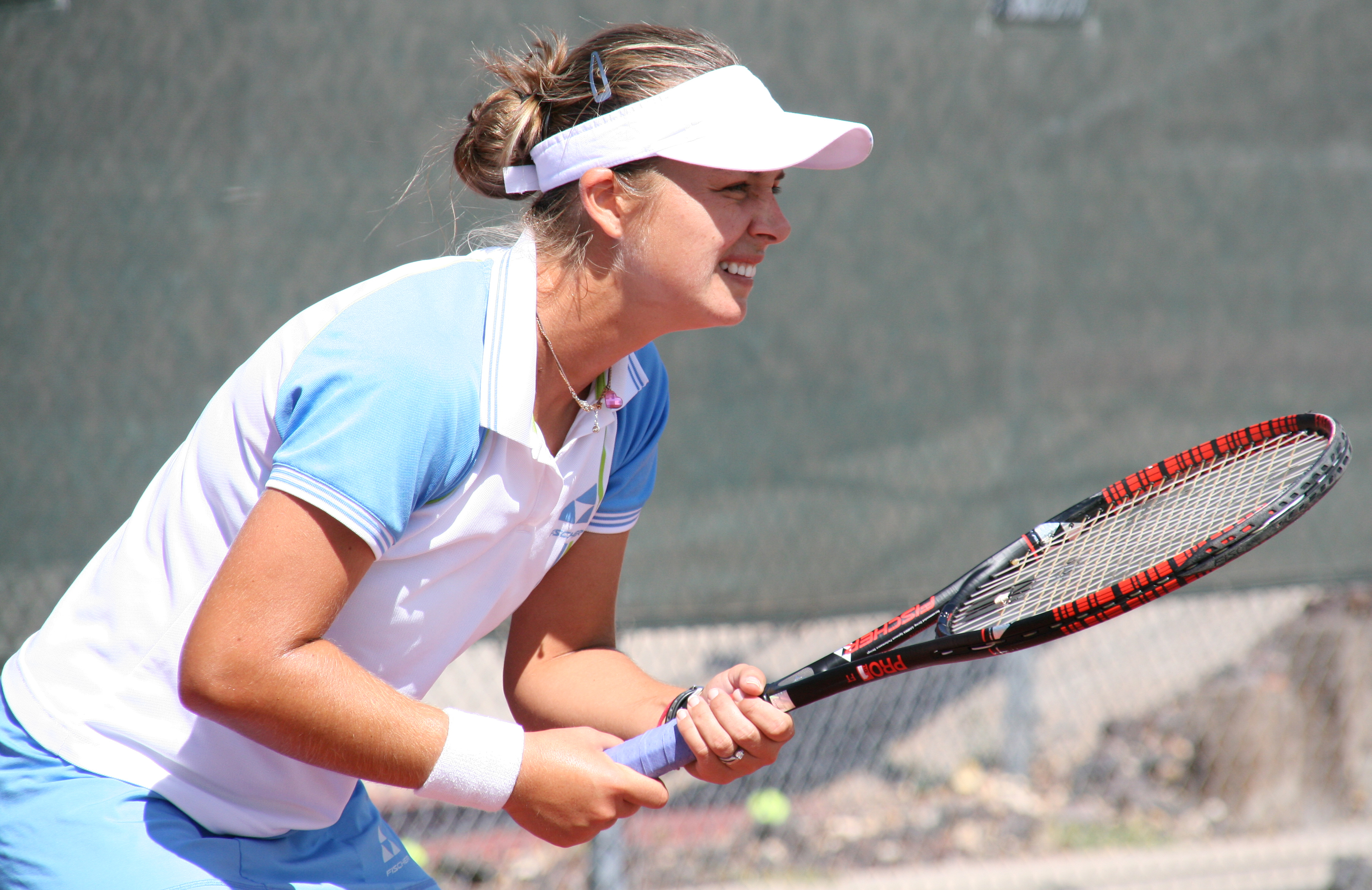 Tetiana Luzhanza playing in the Coleman Vision tennis tournament in Albuquerque, New Mexico, USA